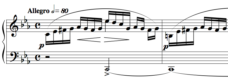 The first few measures of Preludes, Op. 23, No. 7. The set, composed by Sergei Rachmaninoff in 1901 was published before 1923, and thus is in the public domain.